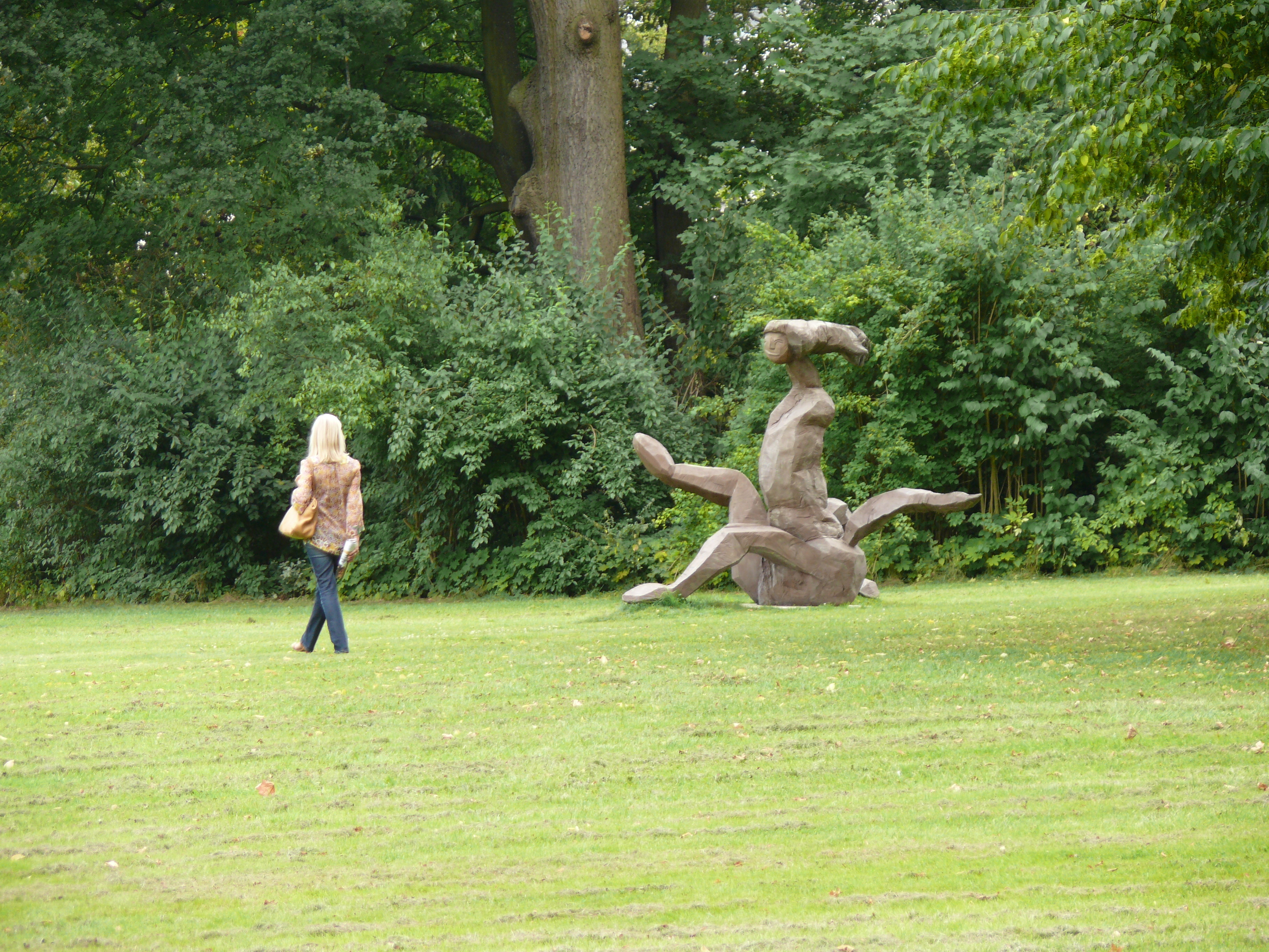 Human approximation at "Entwurf fuer eine grosse Figur (E II)" from Dietrich Klinge at "blickachsen 7", 2009, "Kurpark" of Bad Homburg, Hesse, Germany